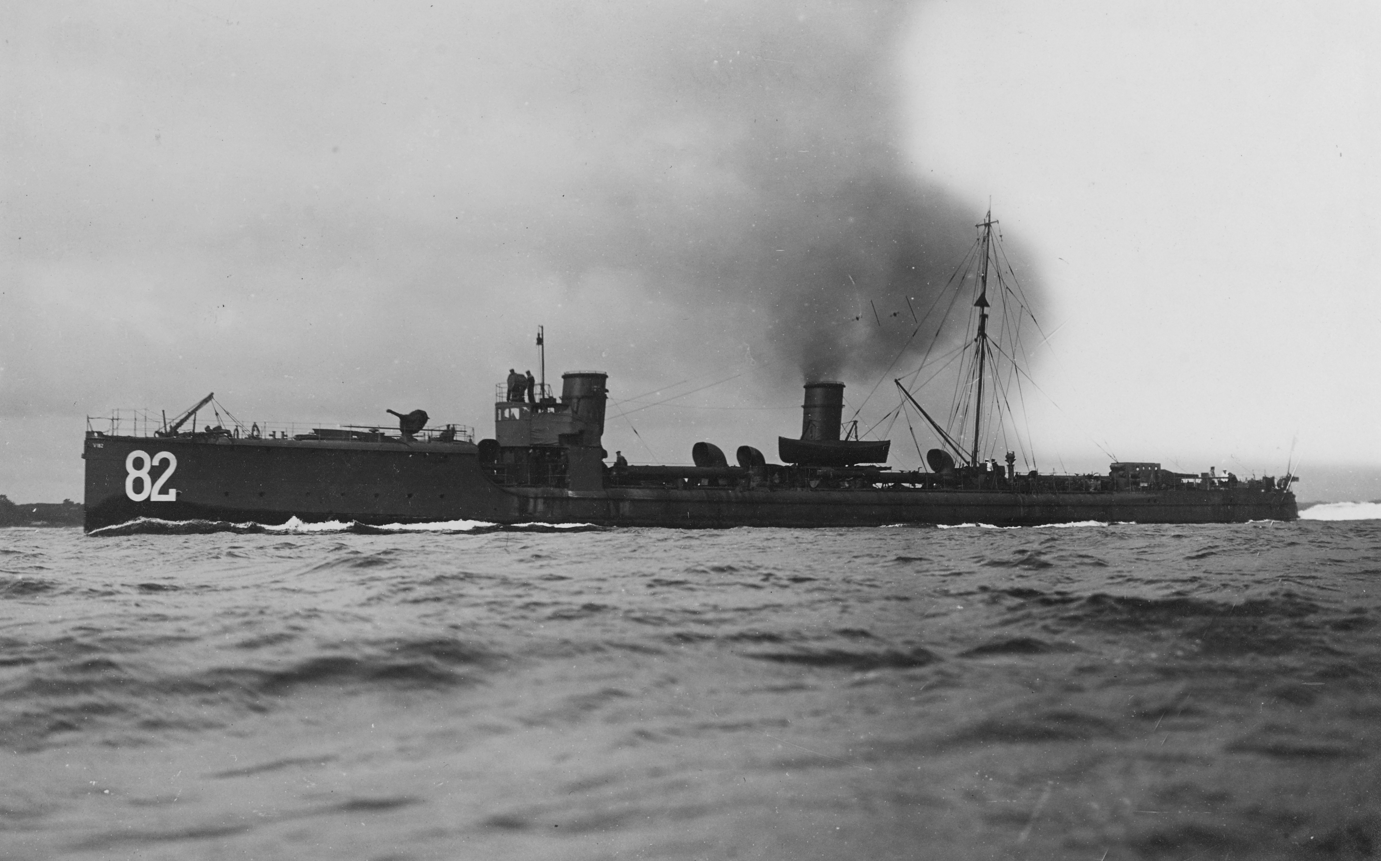 The German large torpedoboat SMS V 182 before the First World War.